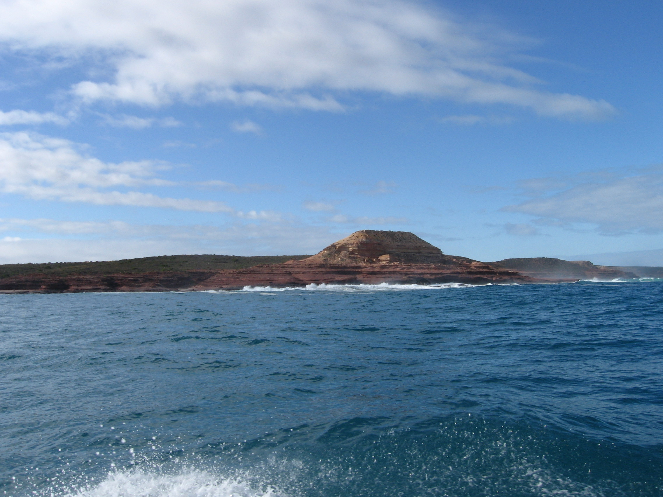 Photo of Red Bluff, taken out to sea, southern end of Gantheaume Bay, central west coast of Western Australia